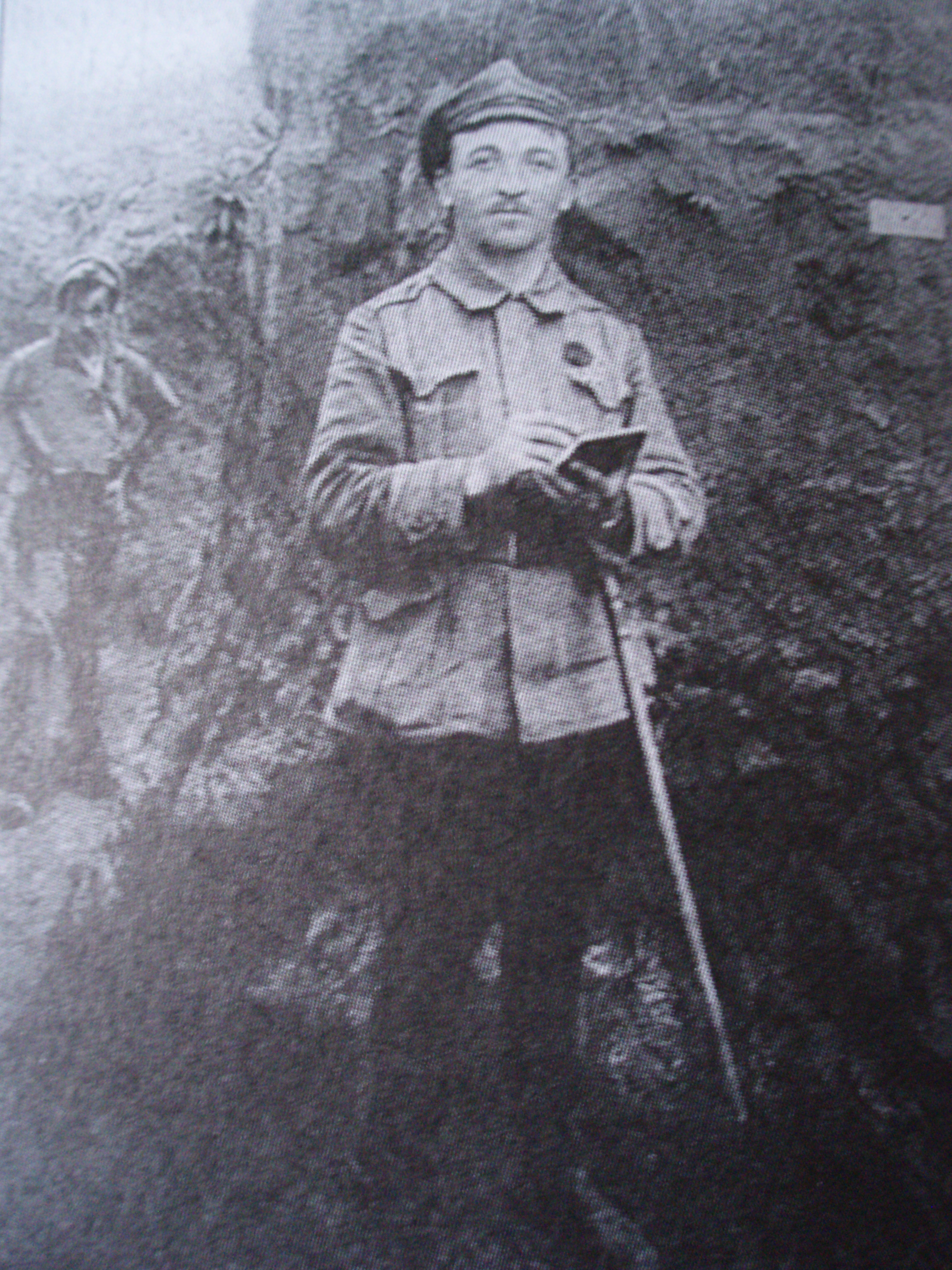 General Stanislav Cecek